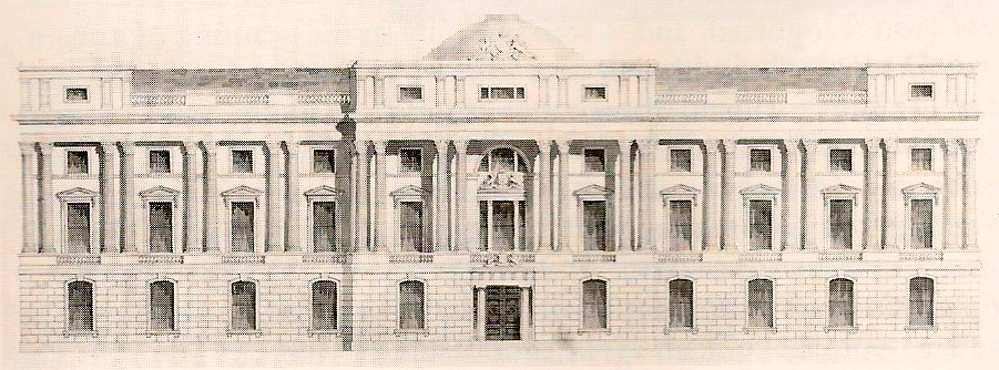 Design by Robert Abraham (1773-1850) for a new College of Arms in Trafalgar Square, unexecuted.